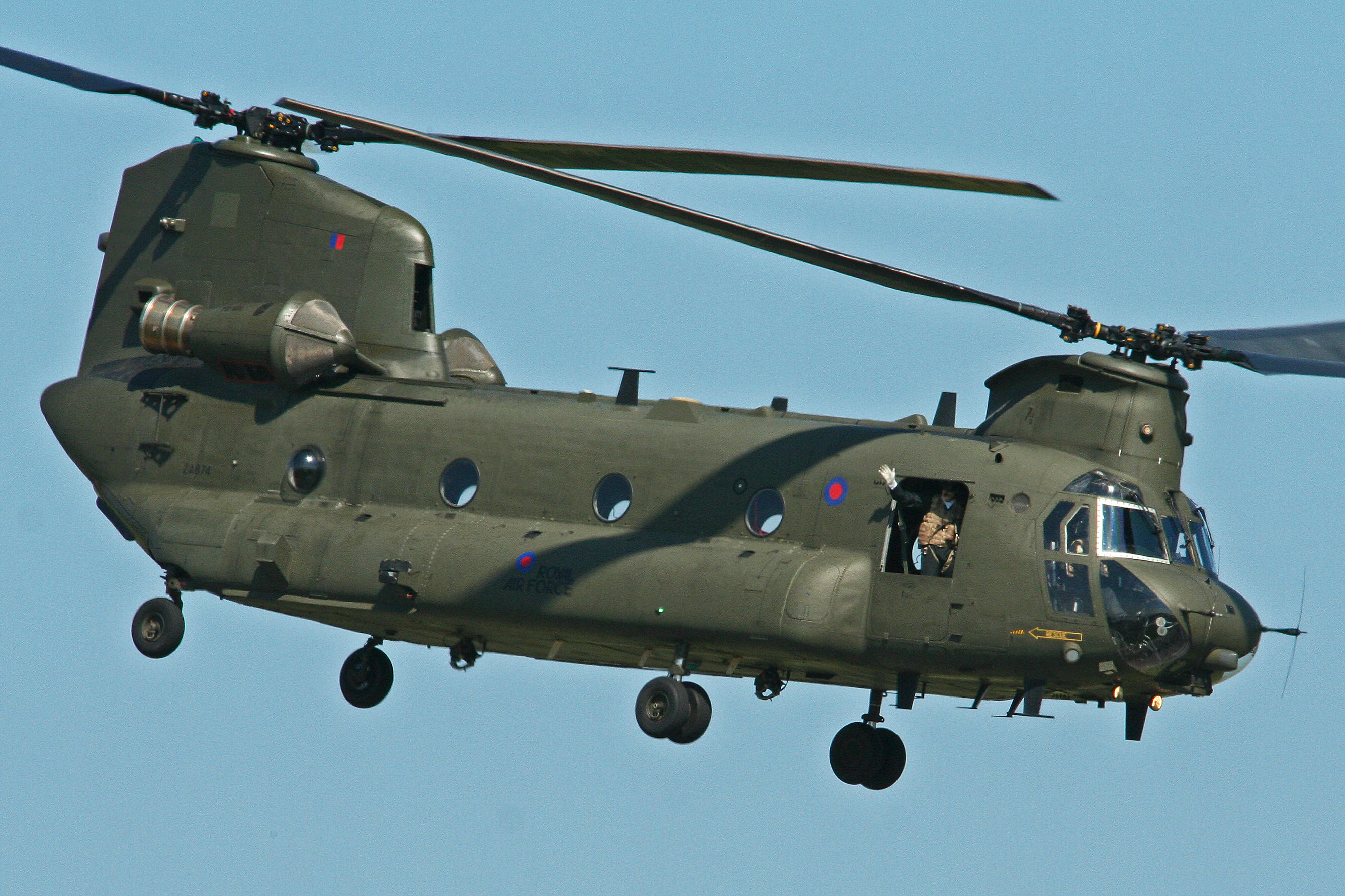 Seen during it's solo display as 'The Chinook display team'. Operated by the RAFs Odiham wing. c/n B.821, l/n MA005 / M7004. 2013 Waddington Airshow. 6-7-2013